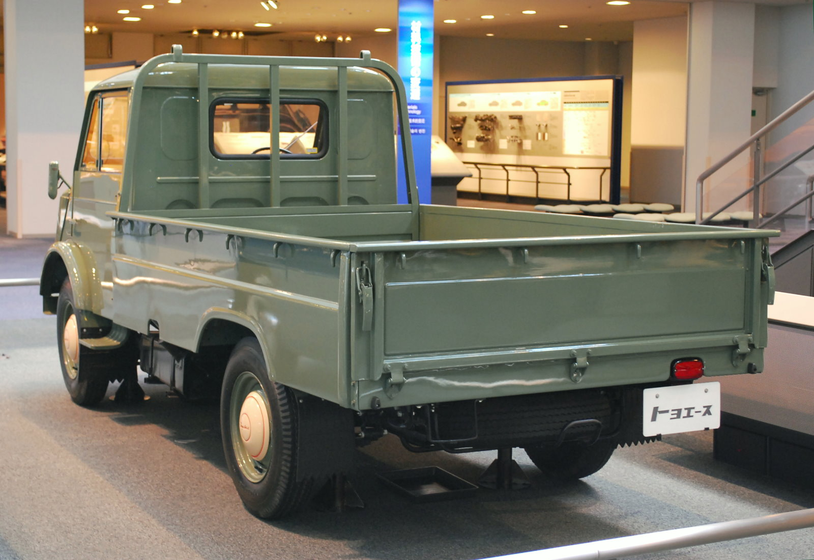 1st generation Toyota Toyoace